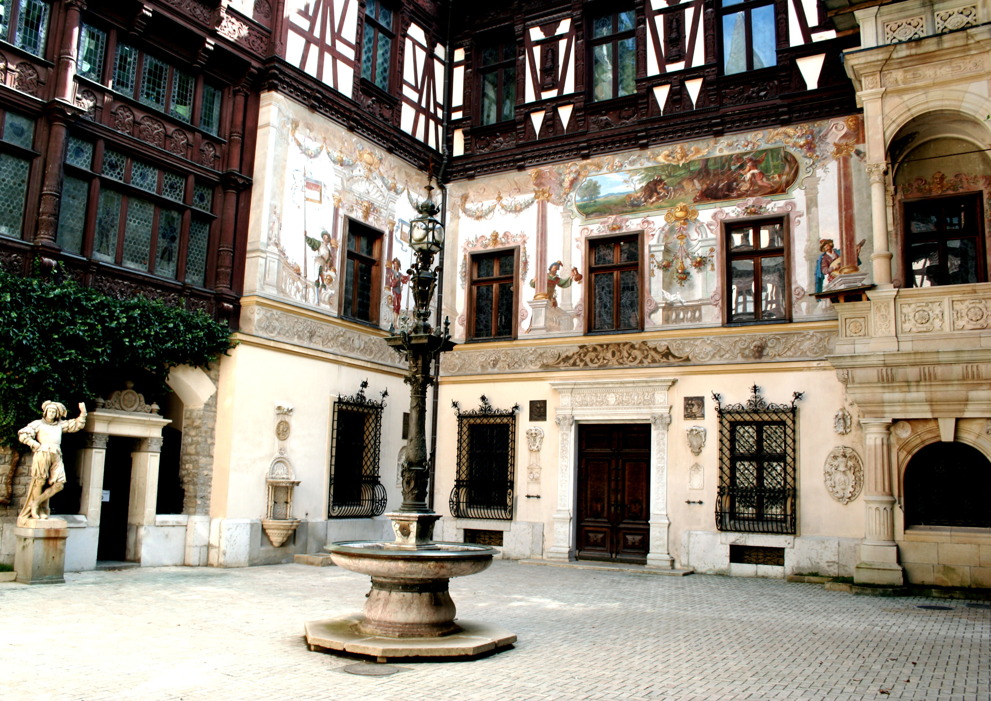 Courtyard of Peleş Castle, Sinaia, Romania.